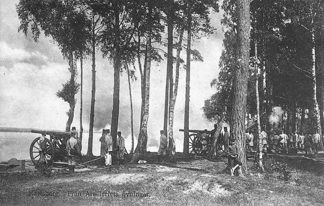 Swedish army artillery exercise in Karlsborg around 1910.